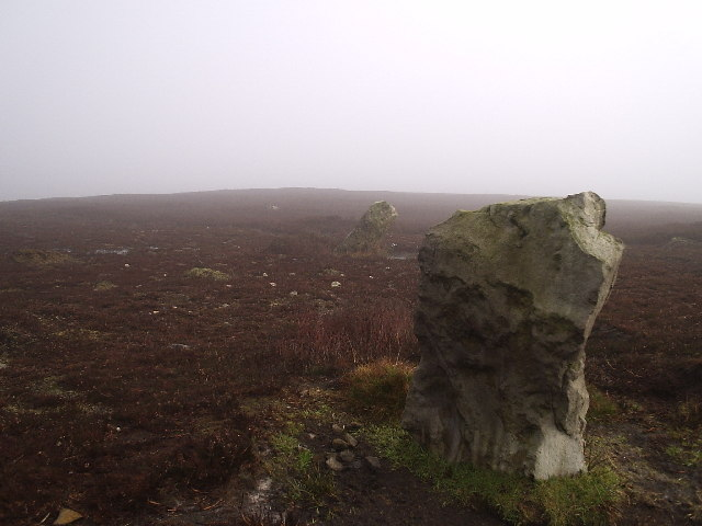 Standing stones? at Simon Howe. What appears to be a line of standing stones running north east from a cairn on the top of Simon Howe, Goathland Moor